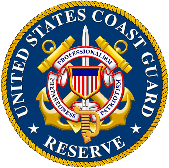 PNG version of the United States Coast Guard Reserve emblem